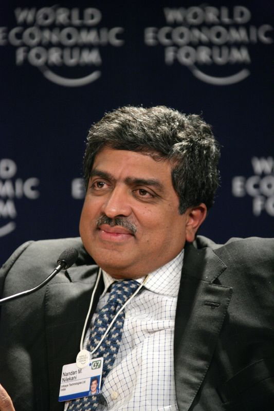 DAVOS/SWITZERLAND, 25JAN07 - Nandan M. Nilekani, Chief Executive Officer and Managing Director, Infosys Technologies, India; Member of the Foundation Board of the World Economic Forum captured during the session 'What's on the Mind of Asia's New Business Giants?' at the Annual Meeting 2007 of the World Economic Forum in Davos, Switzerland, January 25, 2007.